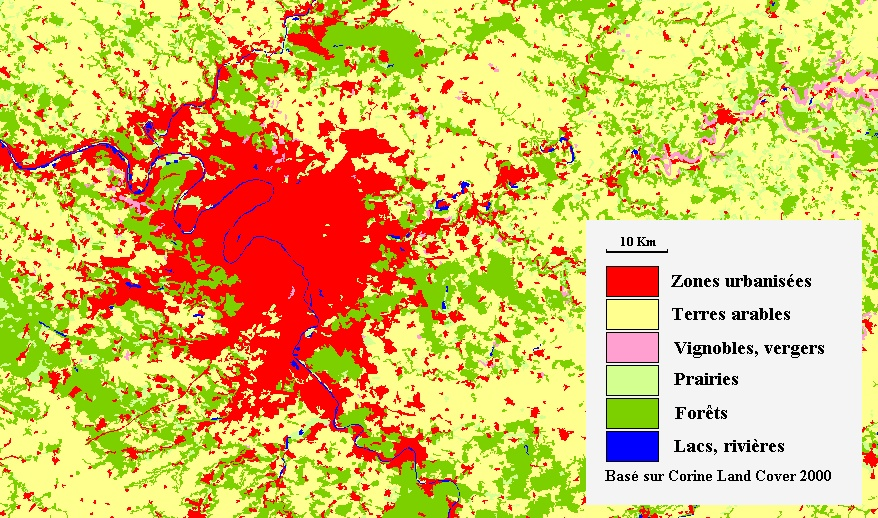 Land use around Paris